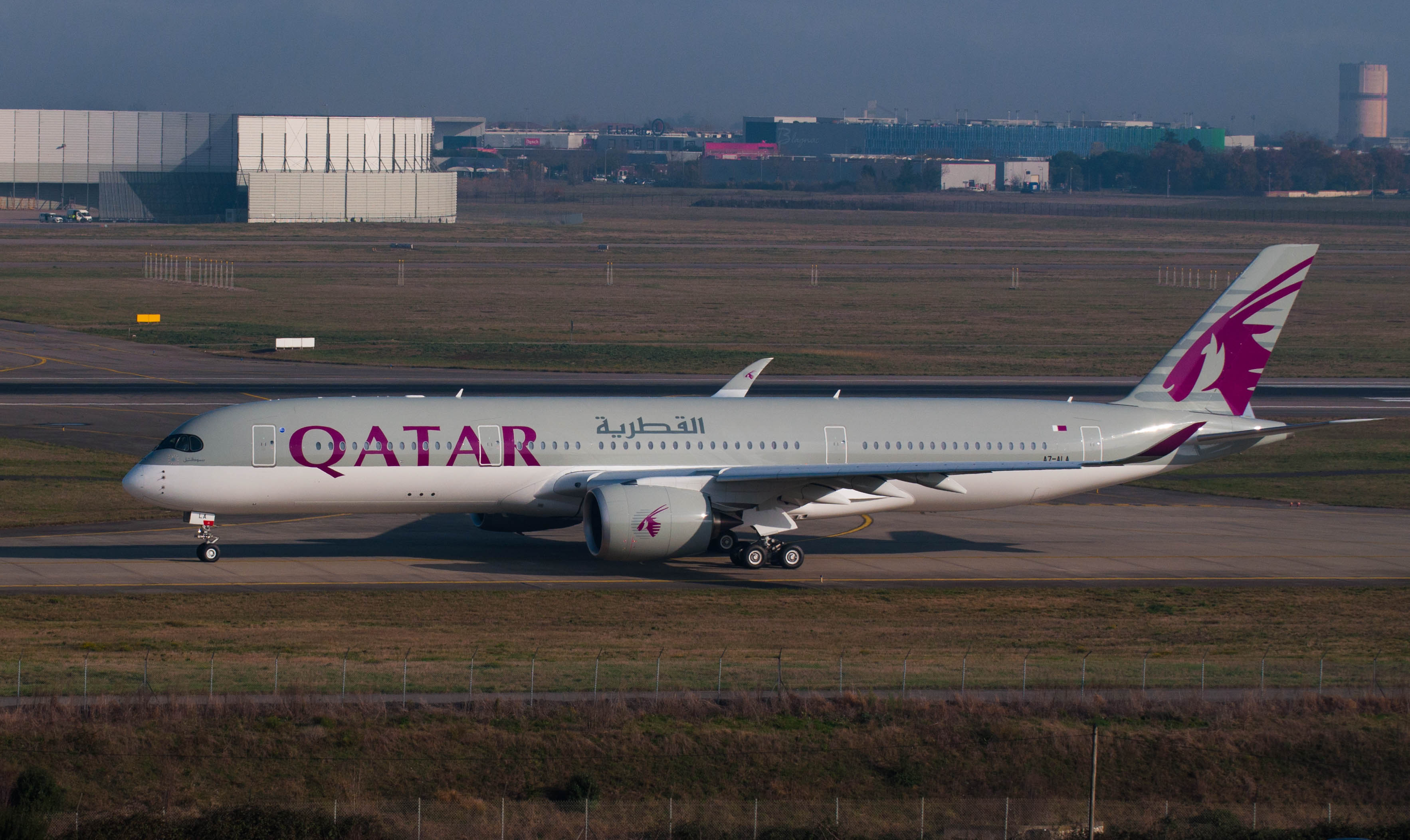 Very first delivery flight for an Airbus A350. Taxiing before leaving Toulouse to Doha.